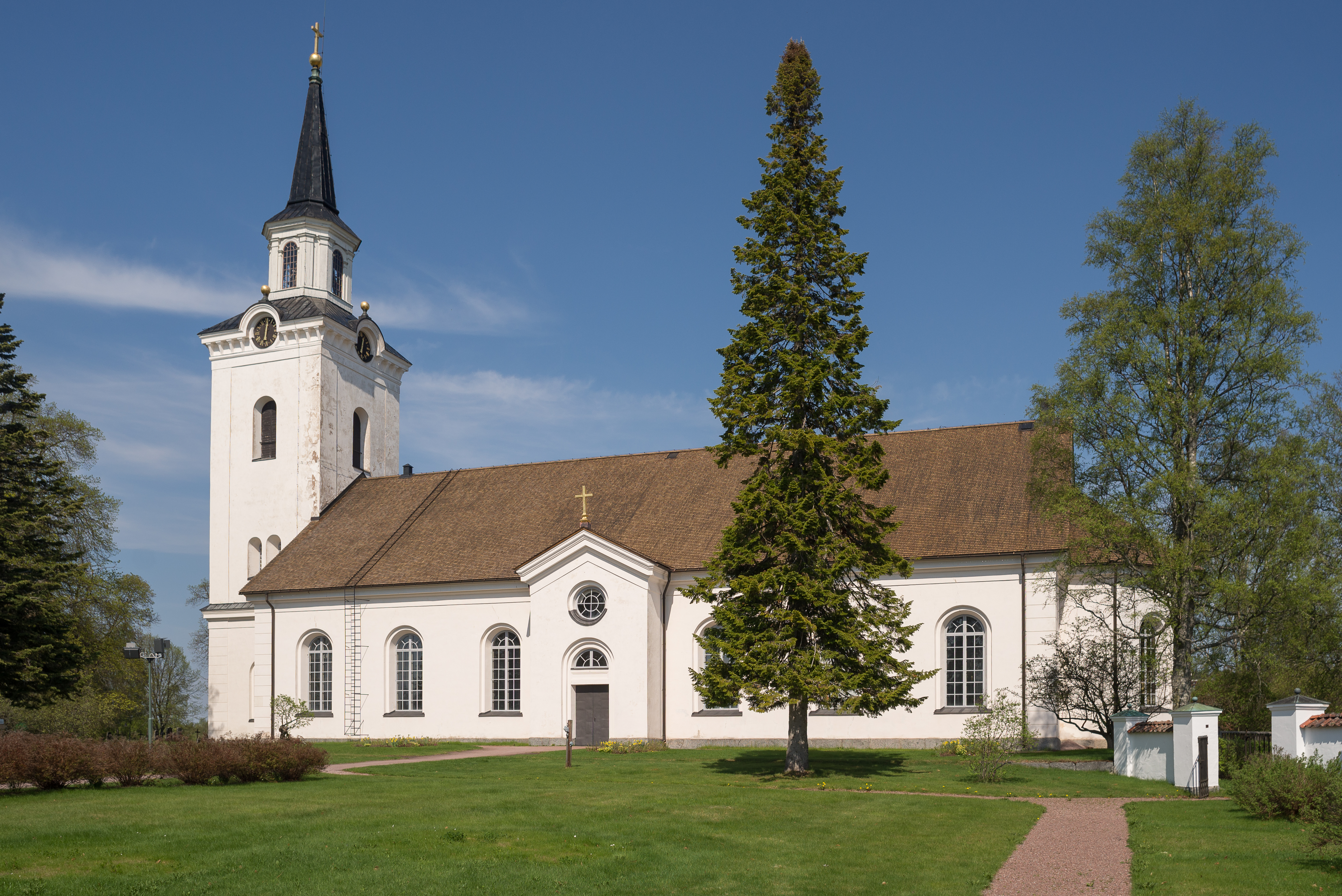 Siljansnäs church in Siljansnäs, Leksand Municipality.